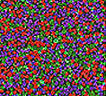 Starch screen in Autochrome plate.